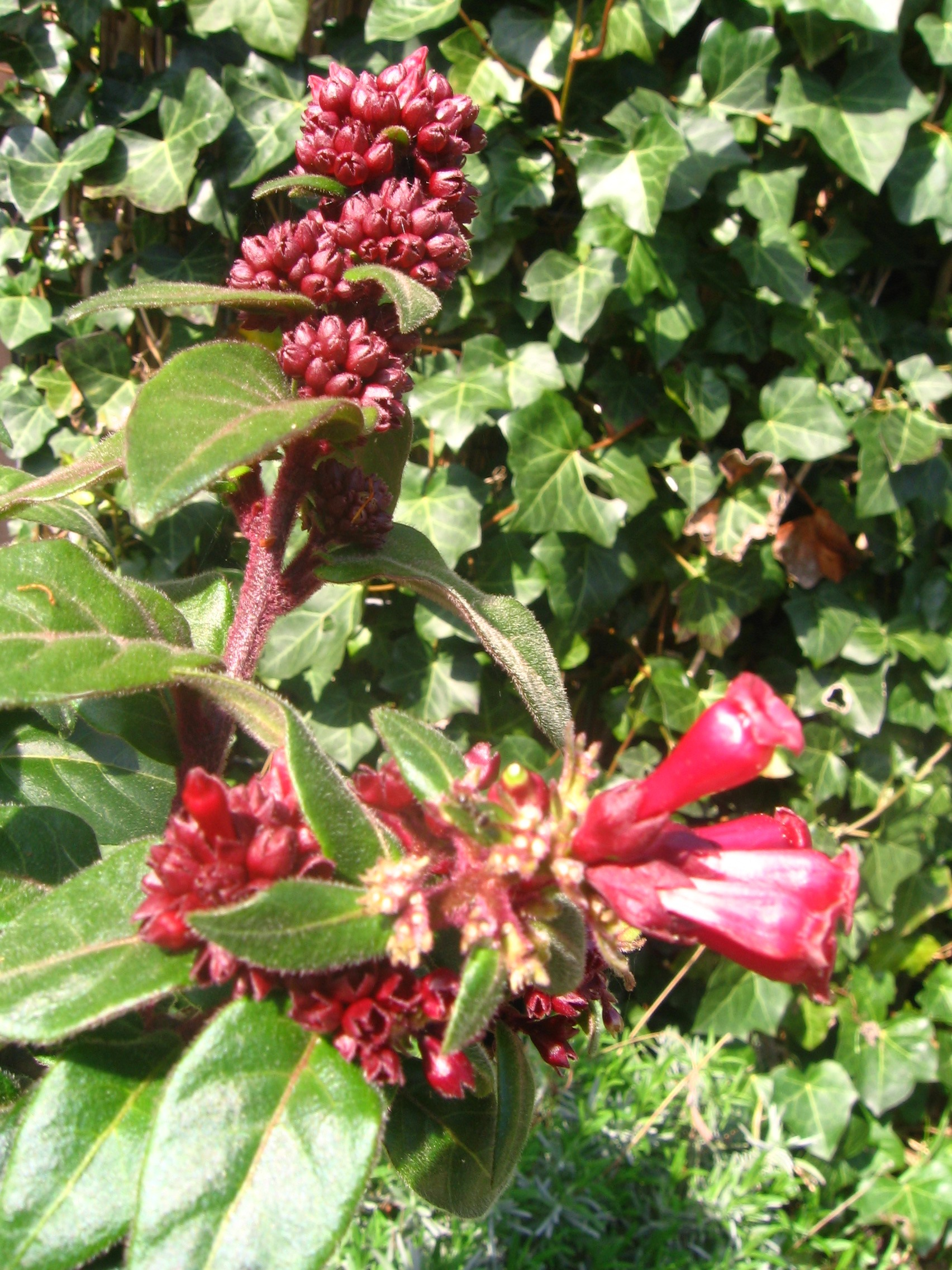 "Cestrum" in my garden , may 2006